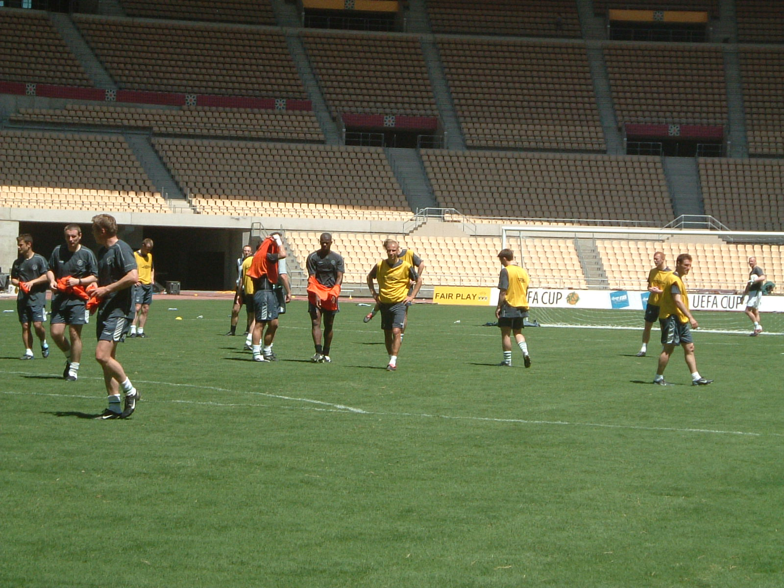 Photo taken by a friend of mine on the day of the UEFA Cup Final.